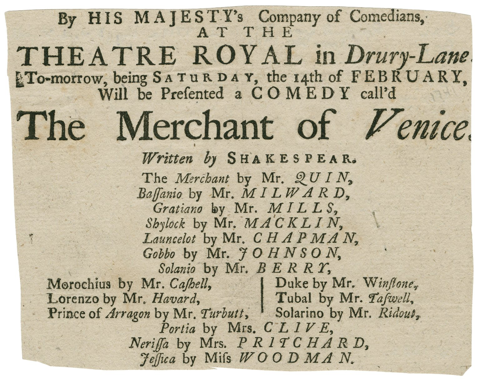 The playbill from a 1741 production of The Merchant of Venice performed at the Theatre Royal of Drury Lane.